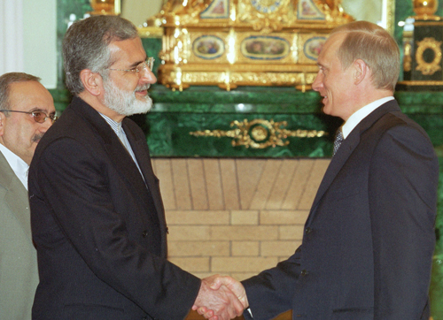 THE KREMLIN, MOSCOW. President Vladimir Putin with Kamal Kharrazi, Iranian Foreign Minister.